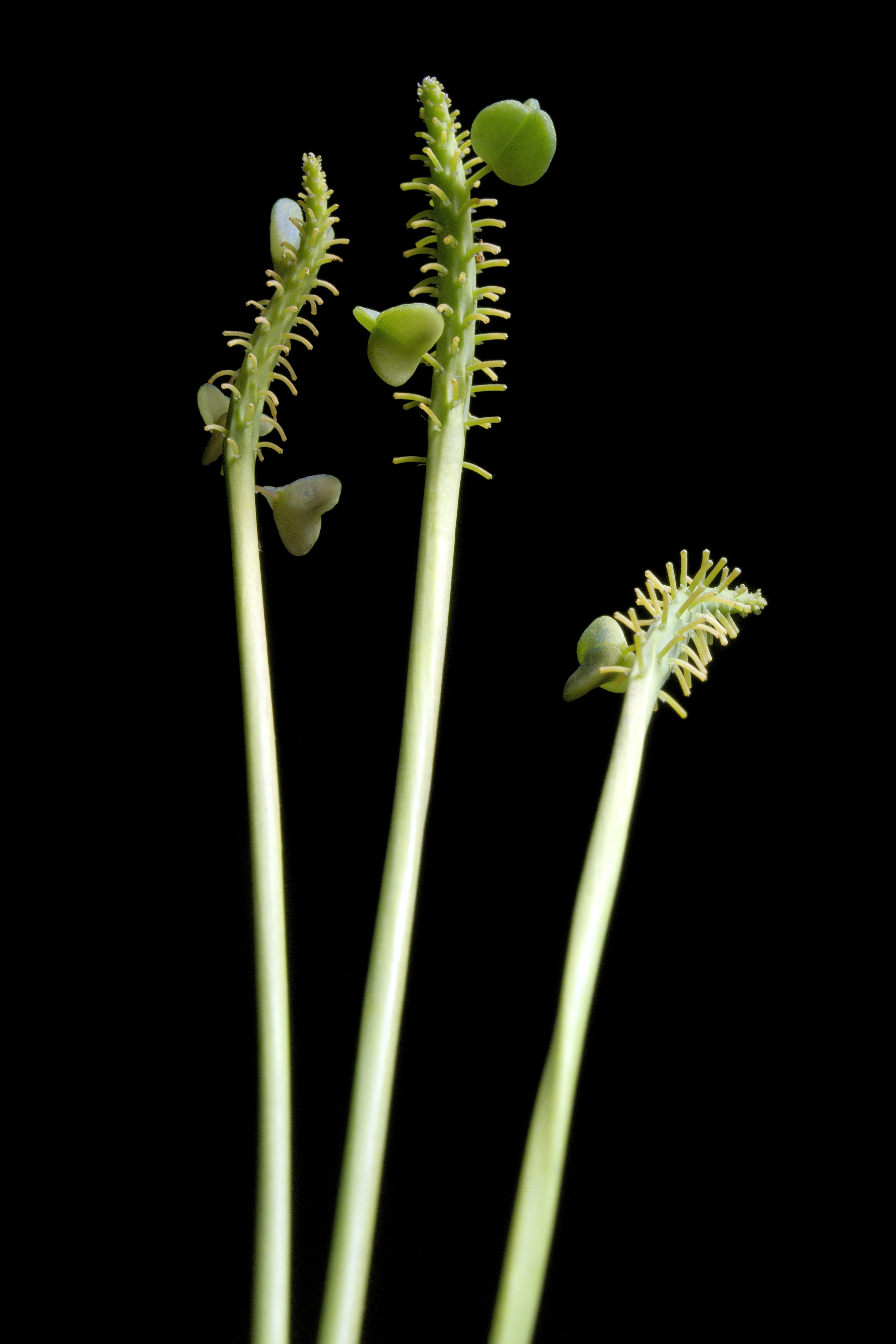 Muscari armeniacum L. Fruits of cultivated Armenian grape hyacinth.